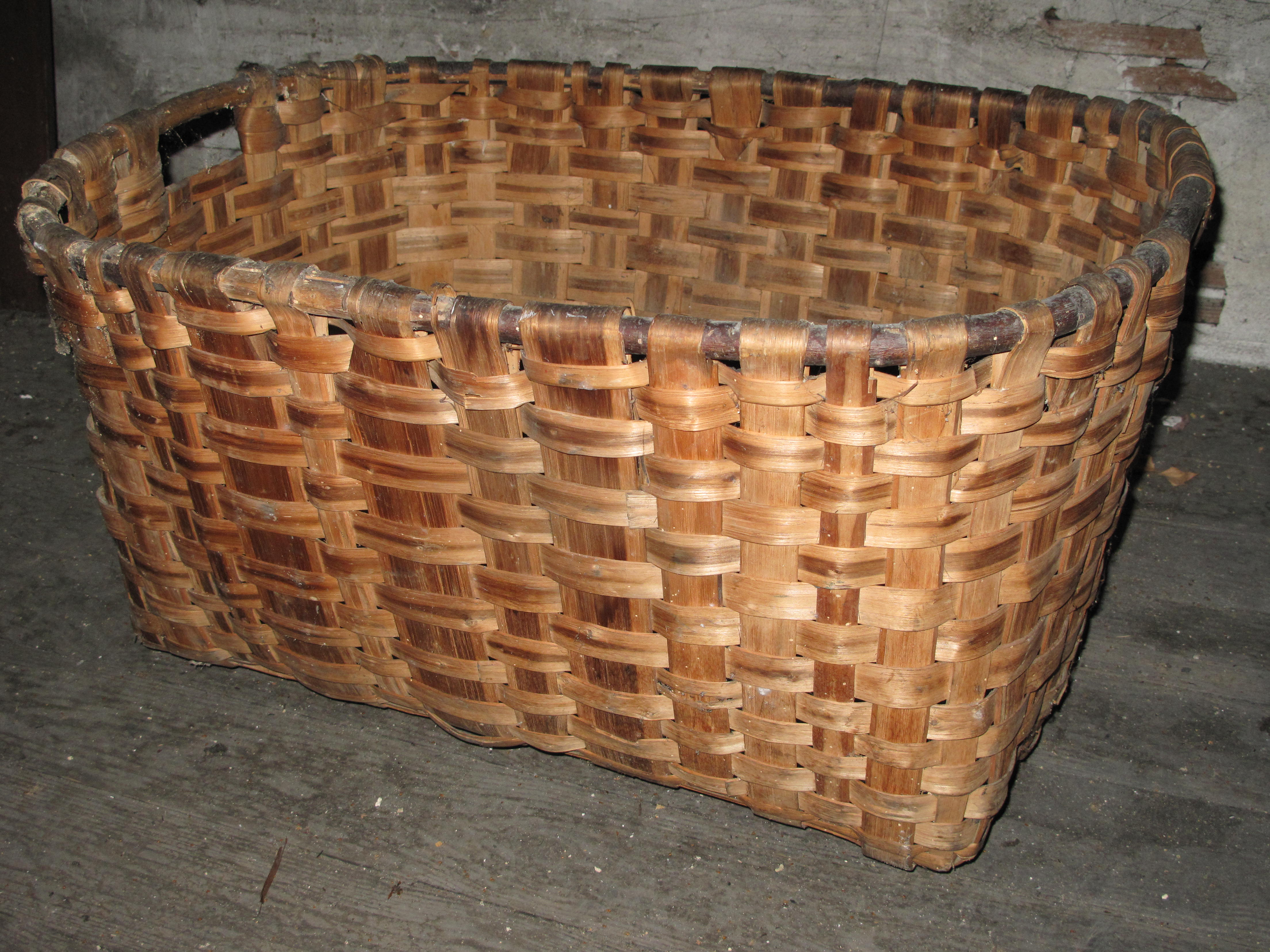 Ancient basket with wooden strips. France, circa 1950.